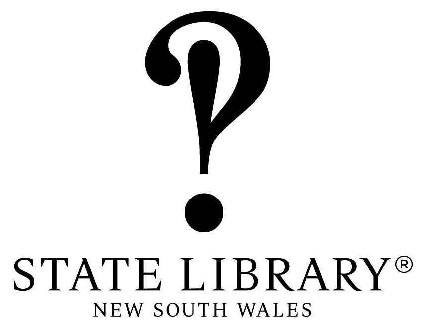 Logo of the State Library of New South Wales - an Interrobang icon.